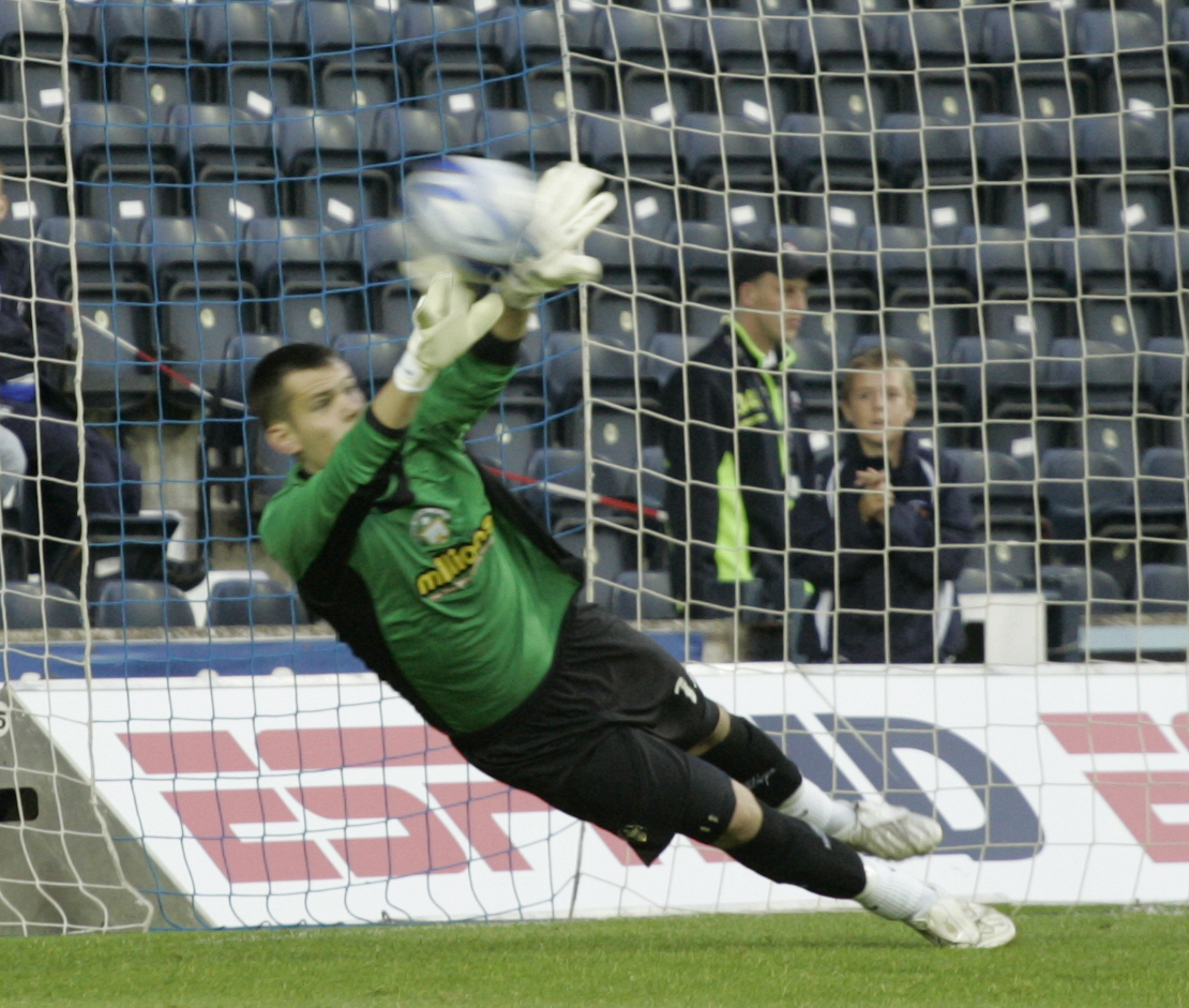 Ryan McWilliams, nearly saving a penalty Kilmarnock vs Morton - CIS Cup 2nd Round.